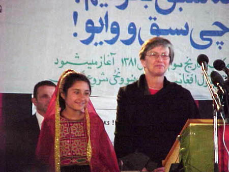 United Nations Children's Fund Executive Director Carol Bellamy and unidentified Afghan girl participate in ceremony marking the re-opening of schools to girls in Afghanistan. (Department of State photo by Sally Hodgson)